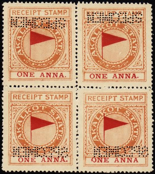 Akalkot State receipt stamp block of four perforated SPECIMEN.